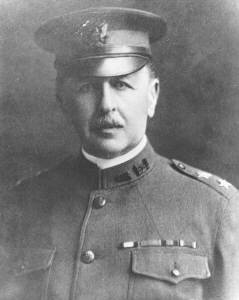 Brigadier General William Murray Black, Chief of Engineers March 7, 1916–October 31, 1919.